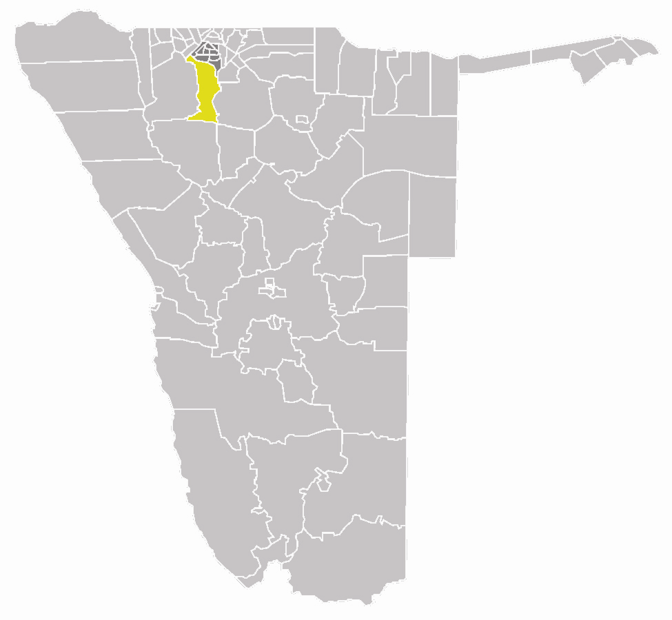 map of the Uuvudhiya constituency within the Oshana region, Namibia